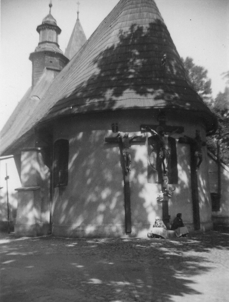 Holy Cross church in Żywiec, Poland